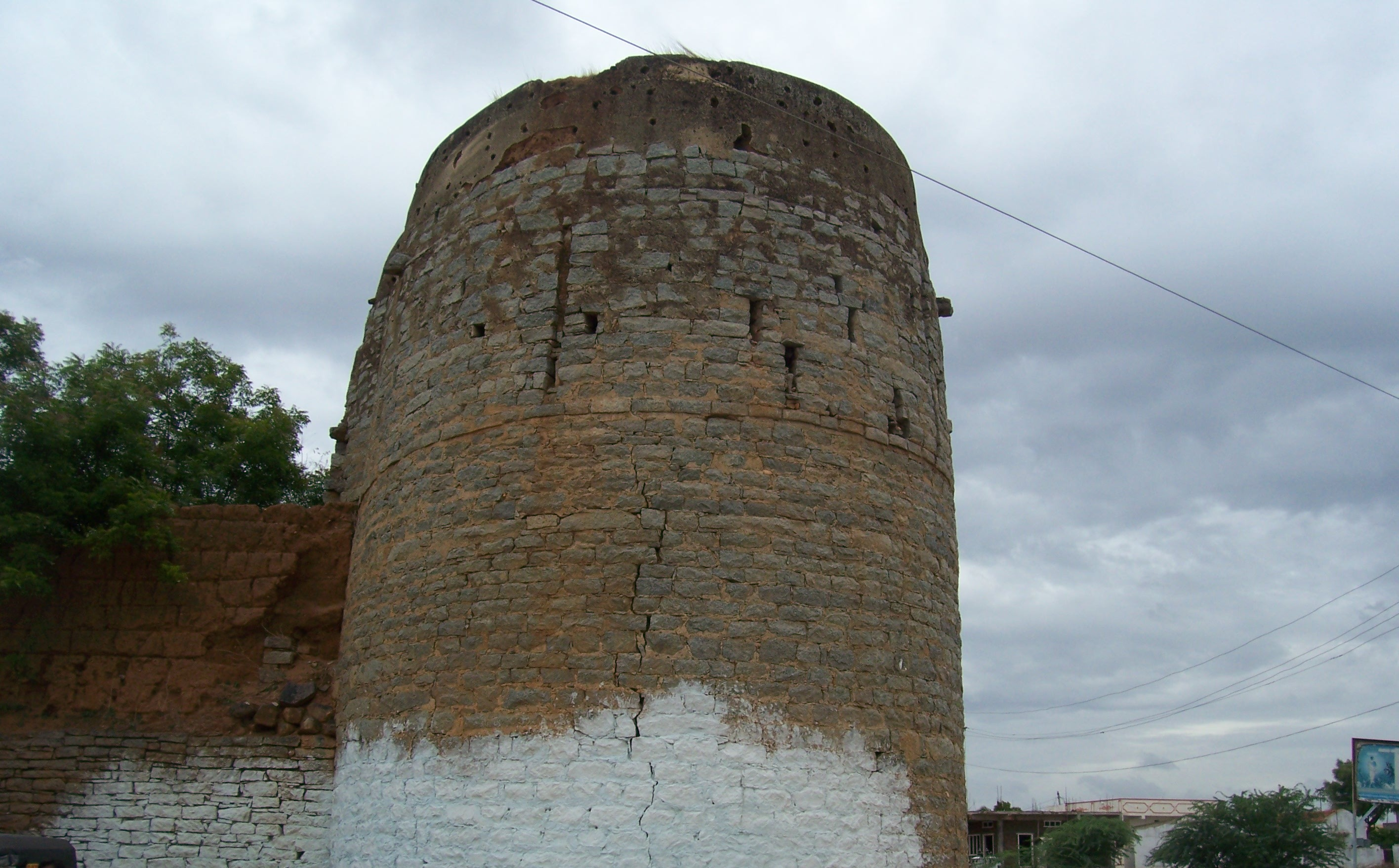 GhaDi at pOchaaaram village